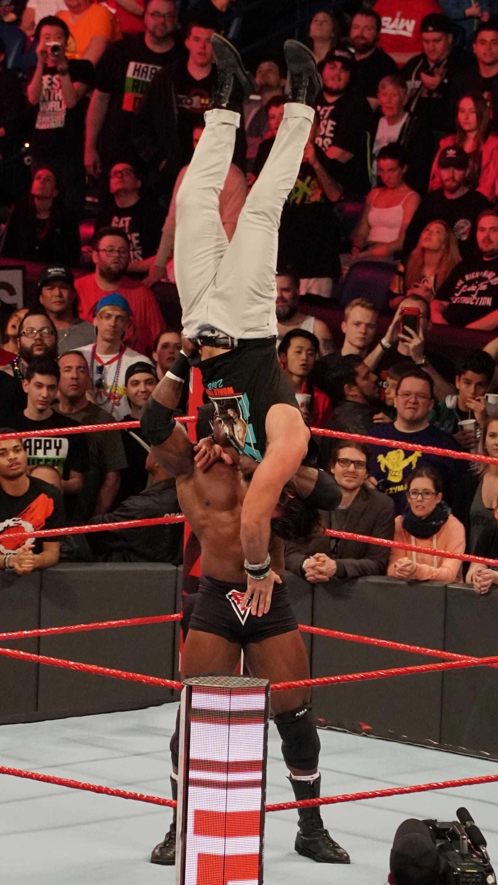 Lashley performing a delayed vertical suplex on Elias.